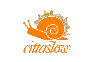 An orange snail is described on the logo.